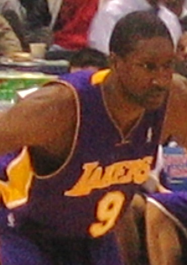 Mo Williams calling out the play at the end of the game.